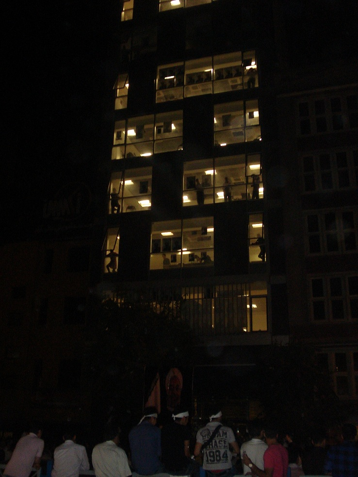 Hassan Rouhani presidential campaign headquarters in Tehran, 7th Tir street